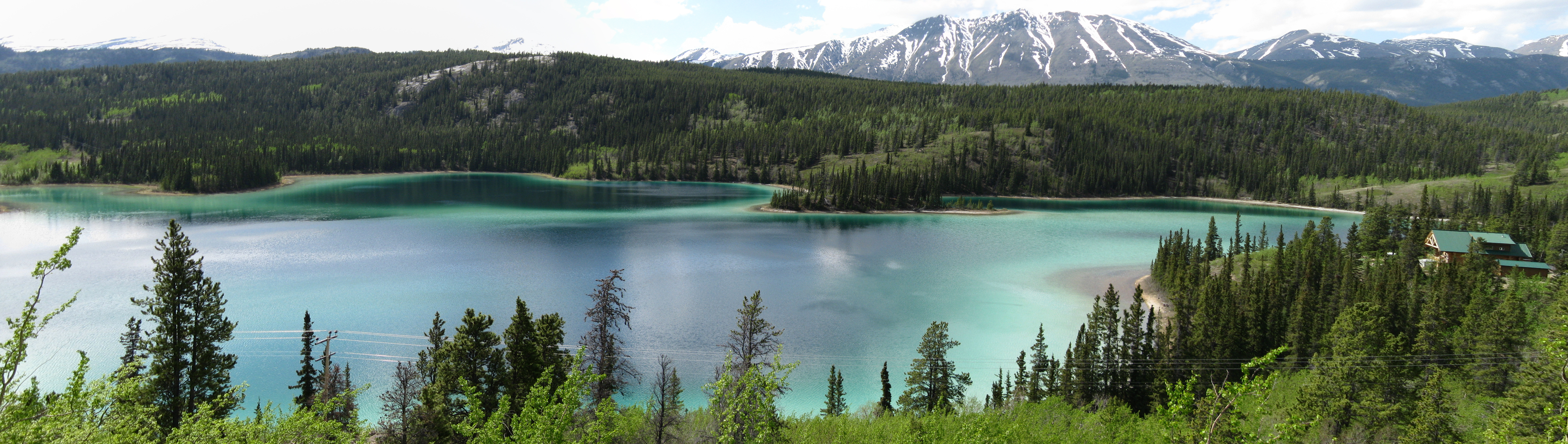 Emerald Lake panoramic, Yukon, Canada